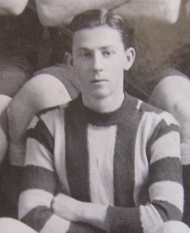 Photo of Leo Bird from 1929-1930